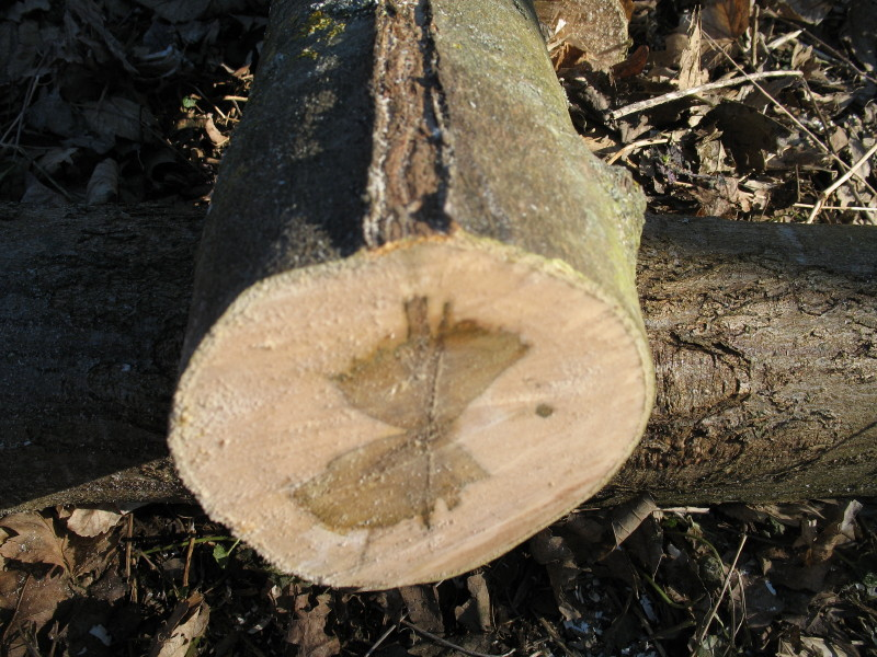 Compartmentalization of decay in trees. Acer platanoides (Norwegian maple)